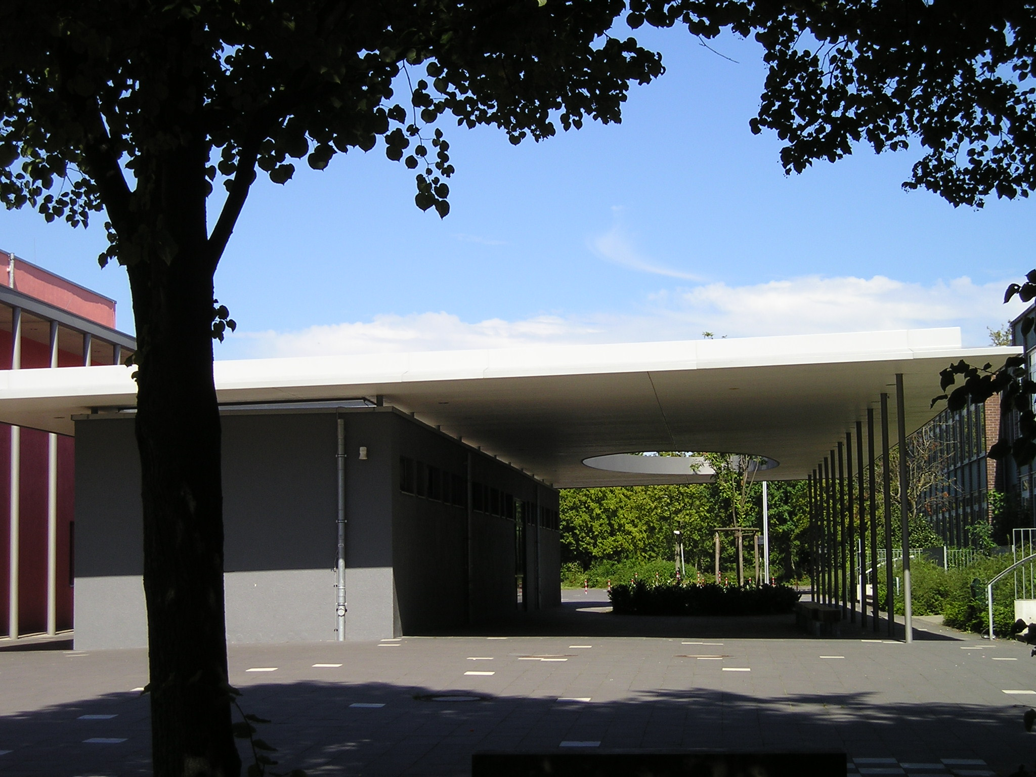 Gymnasium Koblenzer Straße roofed area for recess